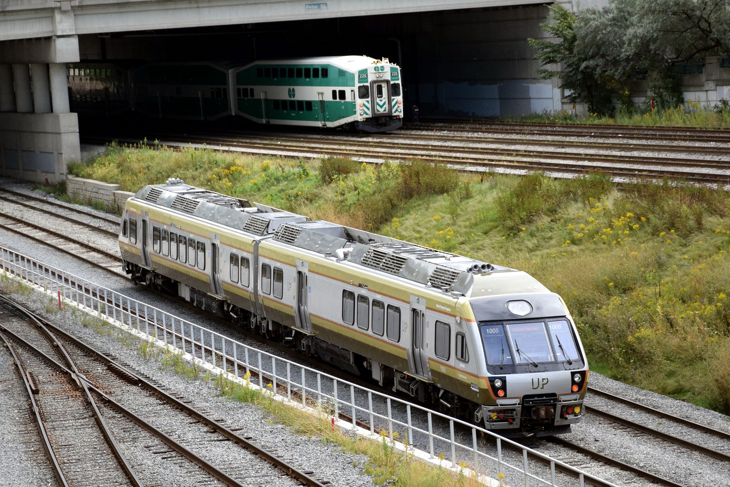 Union Pearson Express arriving at Union Station in Toronto